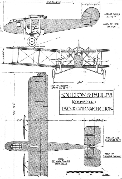 Boulton Paul P.8, three-quarter view